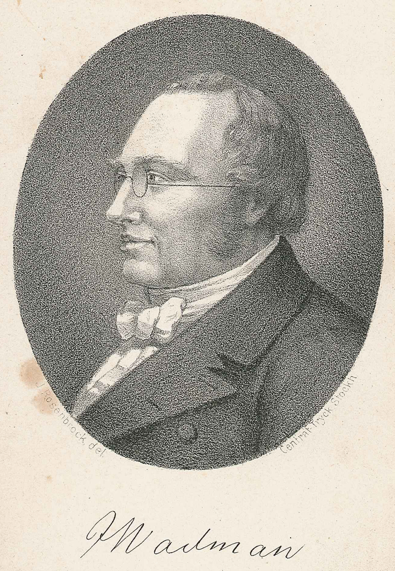 Johan Anders Wadman (1777-1837), Swedish poet.